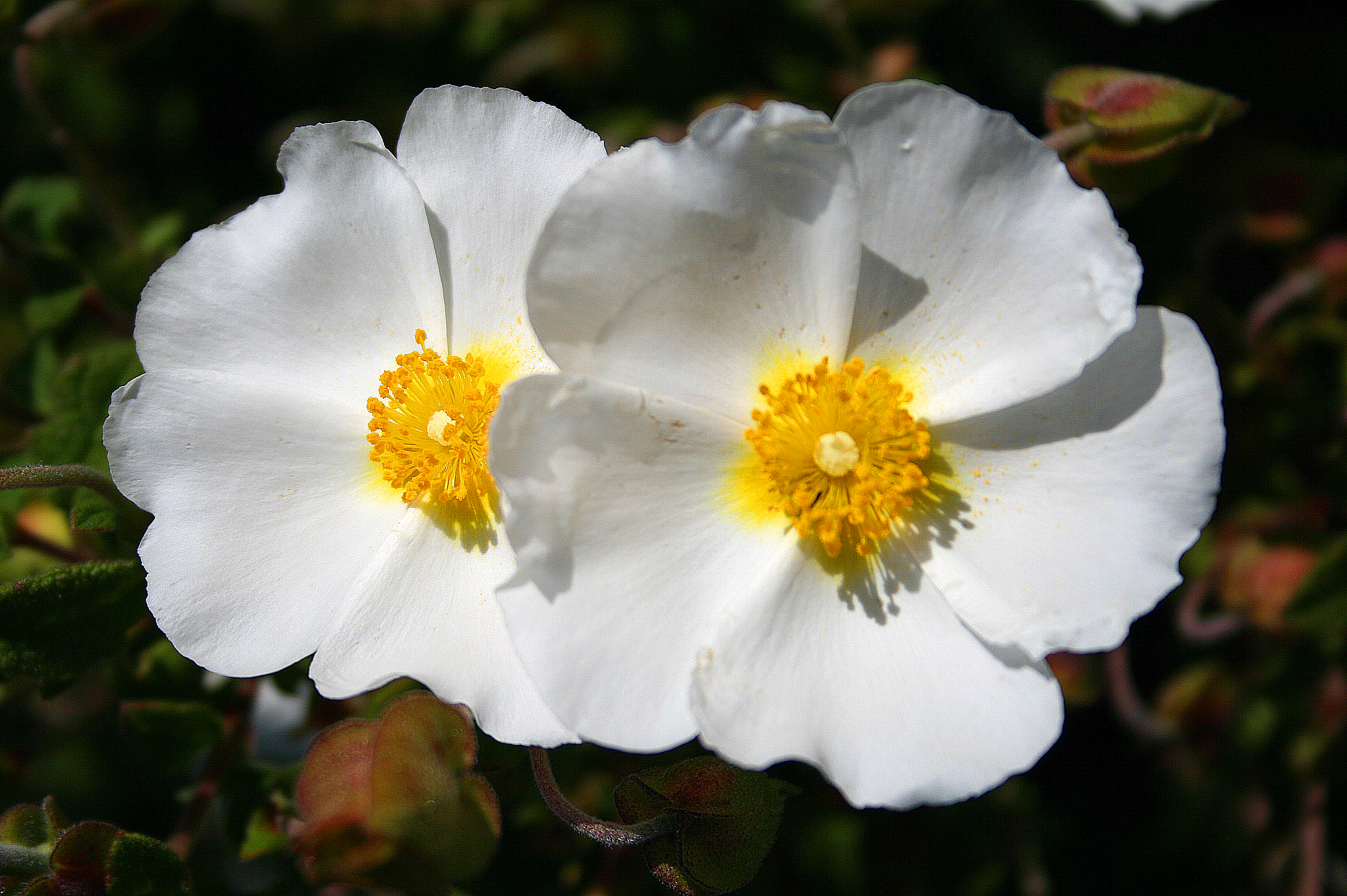 Montpellier cistus (Cistus monspeliensis) – Habit : Sari d’Orcino - ( Corse-du-Sud) - France. Corsu: Muchju nirachju (Cistus monspeliensis) - Locu: Sari d'Urcinu - ( Corsica Sutanna) - Francia. Walon: Ciste di Montpellier (Cistus monspeliensis) - Place: Sari d’Orcino - (Corse-do-Sud) - France.